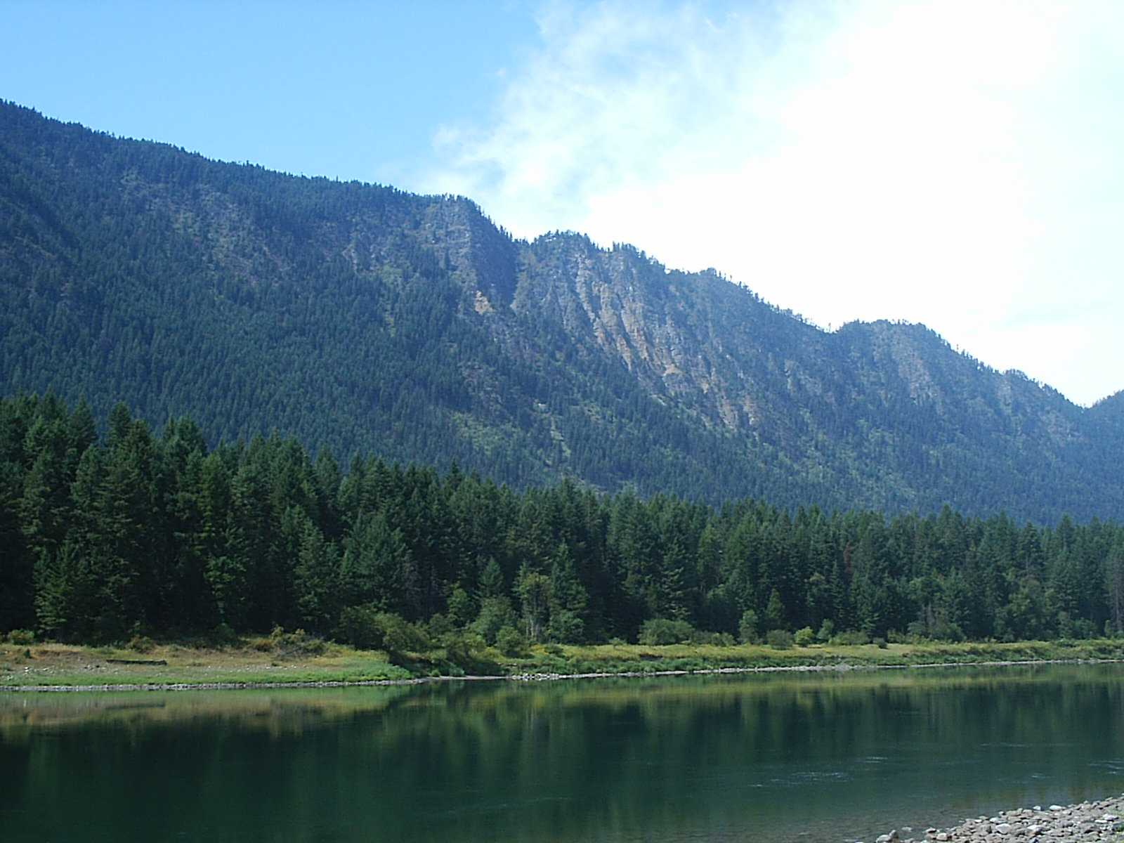 Photo of Clark Fork River at Thompson Falls State Park, western Montana. Taken by John David Stutts, August 2008. Creative Commons CC-BY-NC Photo of Clark Fork River at Thompson Falls State Park, western Montana. Taken by John David Stutts, August 2008. Creative Commons CC-BY-NC